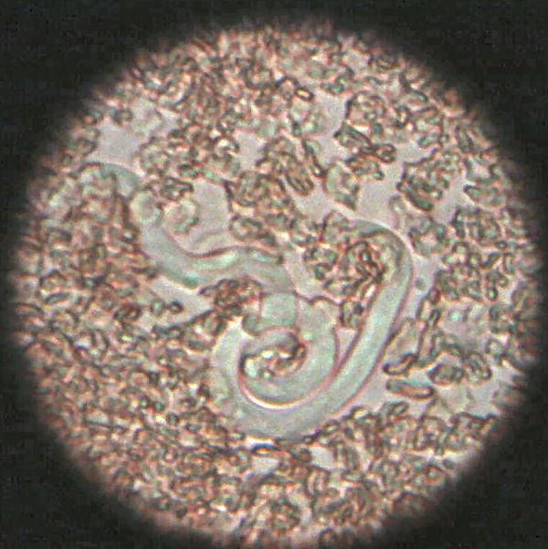 Picture of a heartworm (Dirofilaria immitis) microfilaria taken through a microscope at 400x. Taken by Joel Mills on April 21, 2005.